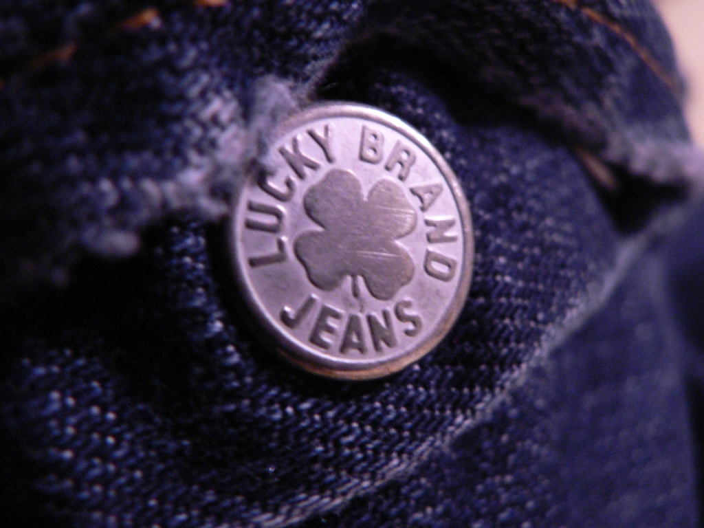 Photograph of a button from the fly of a pair of Lucky Brand Jeans Men's Hendrix Jeans, showing the clover logo.